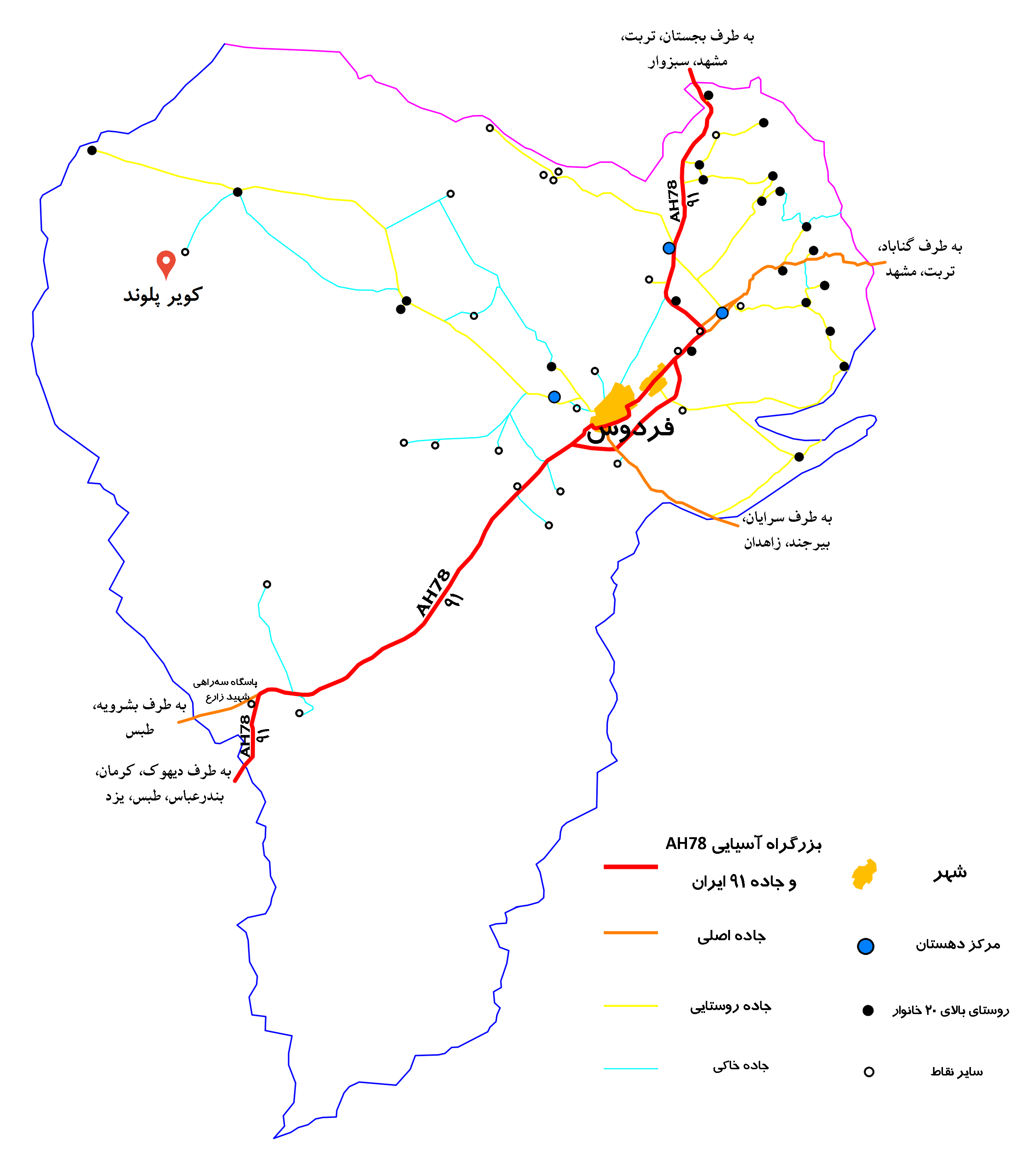 Location of Polond Desert in Ferdows County map.